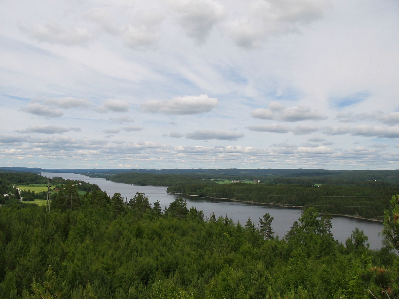 View of Rødenes parish from Ørjekollen.